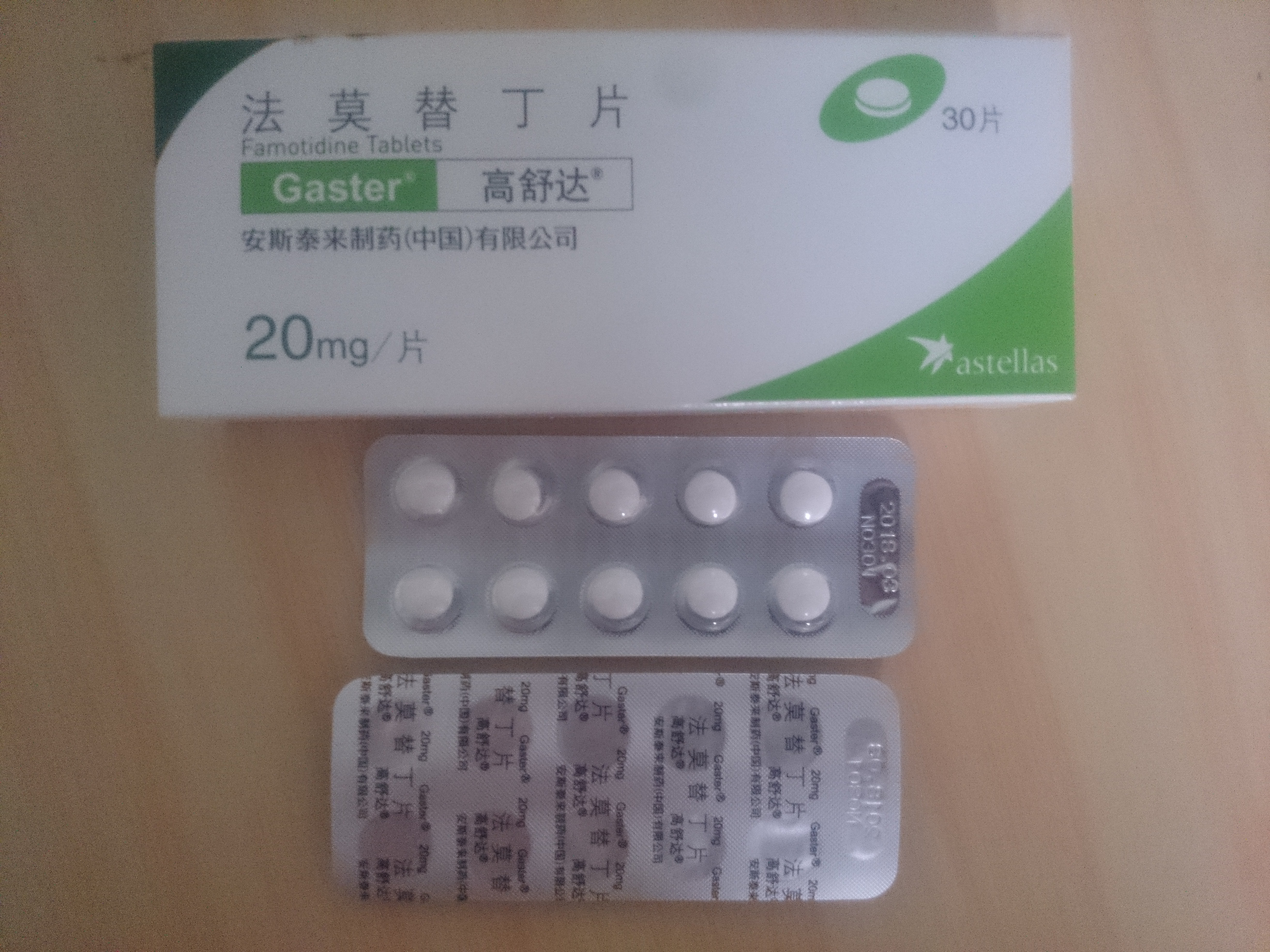 Gaster® famotidine tablets sales in Mainland China. Specification is 20mg * 30 tablets.